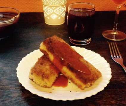 Polish krokiety, served with czerwony barszcz (borscht soup)